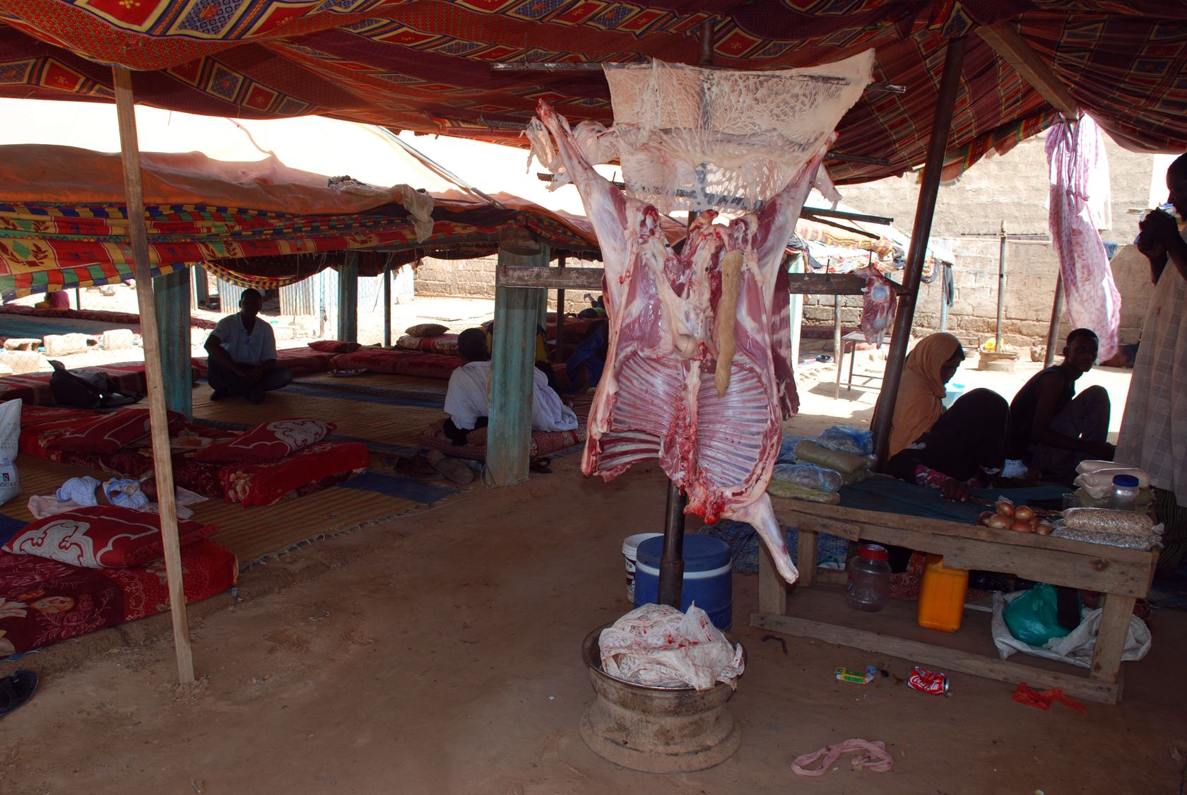 Aleg, Mauritania, fast food restaurant